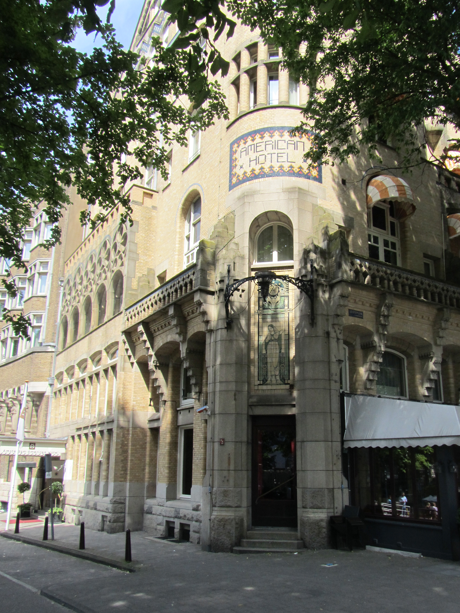 The American Hotel in Amsterdam